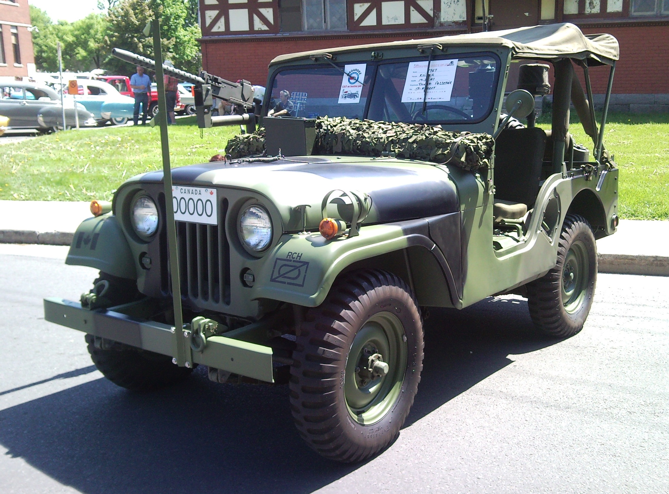 1967 Kaiser Jeep CJ photographed in St. Lambert, Quebec, Canada at Auto classique VAQ St-Lambert 2012.